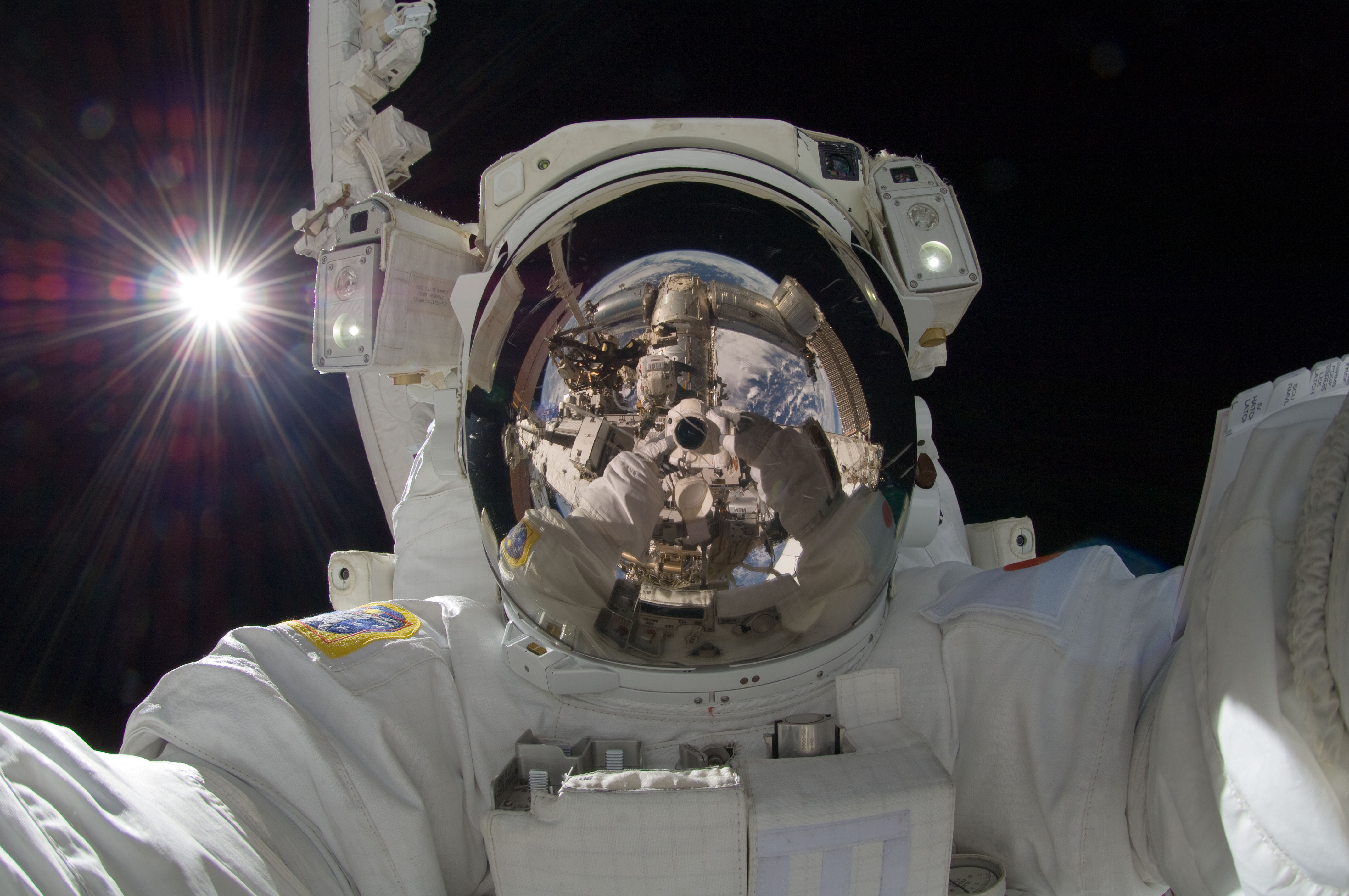 Japan Aerospace Exploration Agency astronaut Akihiko Hoshide, Expedition 32 flight engineer, uses a digital still camera to make a photo of his helmet visor during the mission's third session of extravehicular activity (EVA). During the six-hour, 28-minute spacewalk, Hoshide and NASA astronaut Sunita Williams (visible in the reflections of Hoshide's helmet visor), flight engineer, completed the installation of a Main Bus Switching Unit (MBSU) that was hampered last week by a possible misalignment and damaged threads where a bolt must be placed. They also installed a camera on the International Space Station's robotic arm, Canadarm2. The bright sun is visible at left.